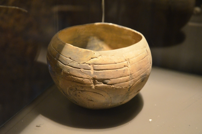 pottery